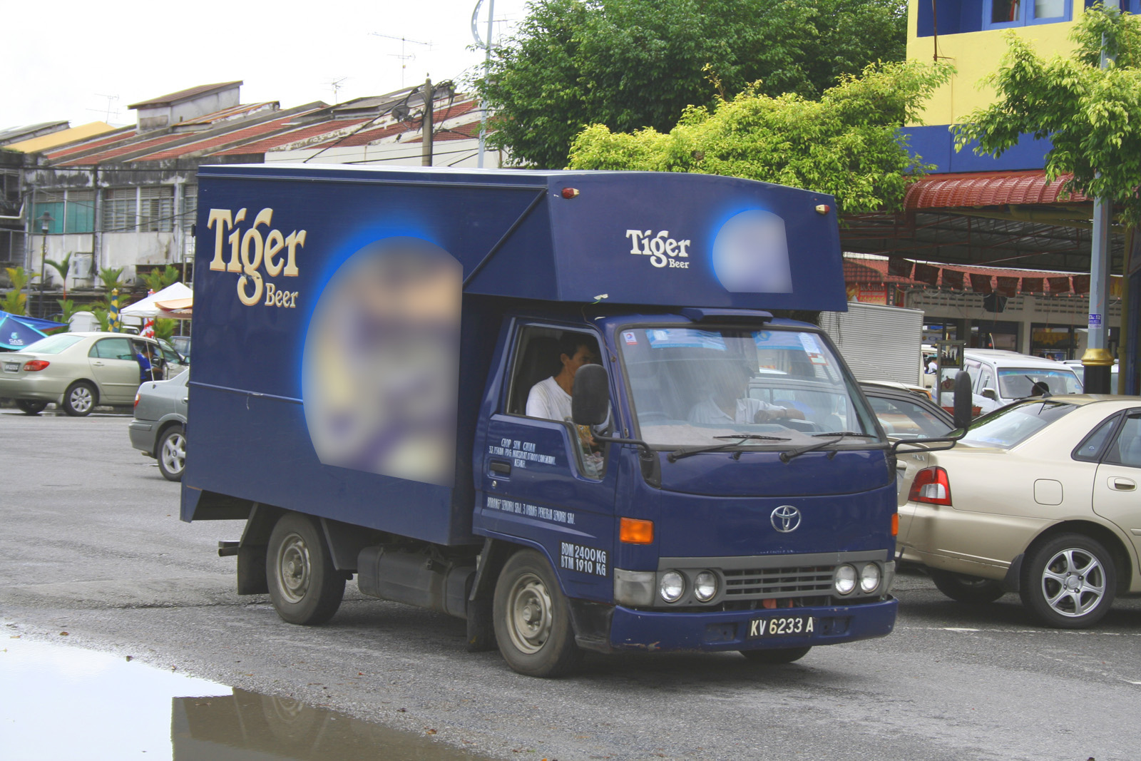 Beer truck